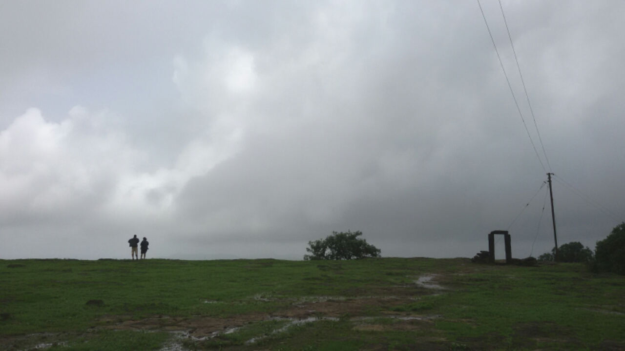 Plateau of Morjai